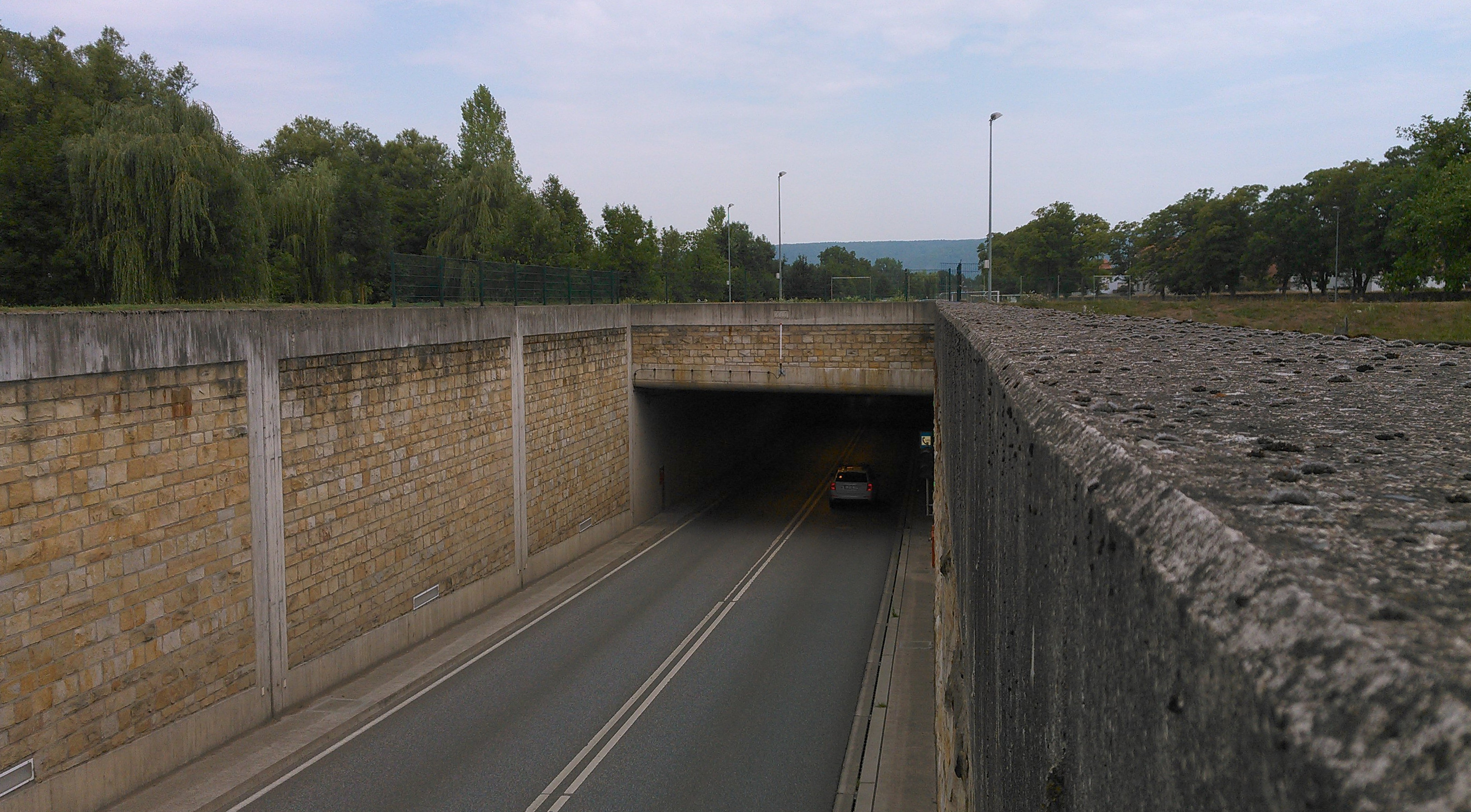 "Emmerauentunnel" bypass road in Lügde, Germany